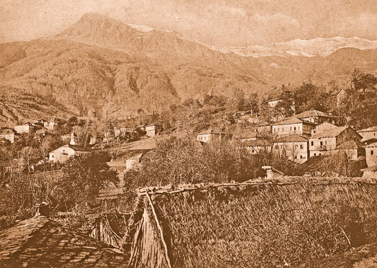 Bituše, Republic of Macedonia, 1908